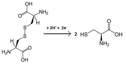 Cysteine synthesis